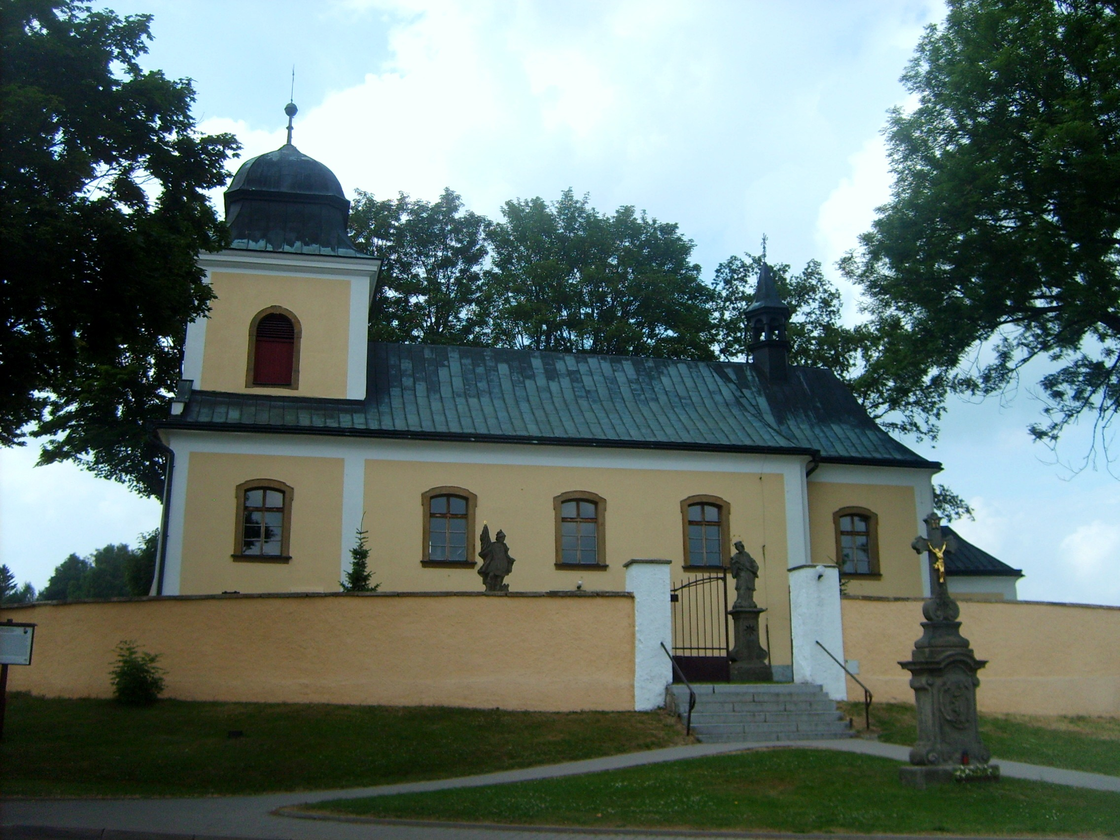 The Holy Trinity Church in Kameničky, Chrudim District, CZ